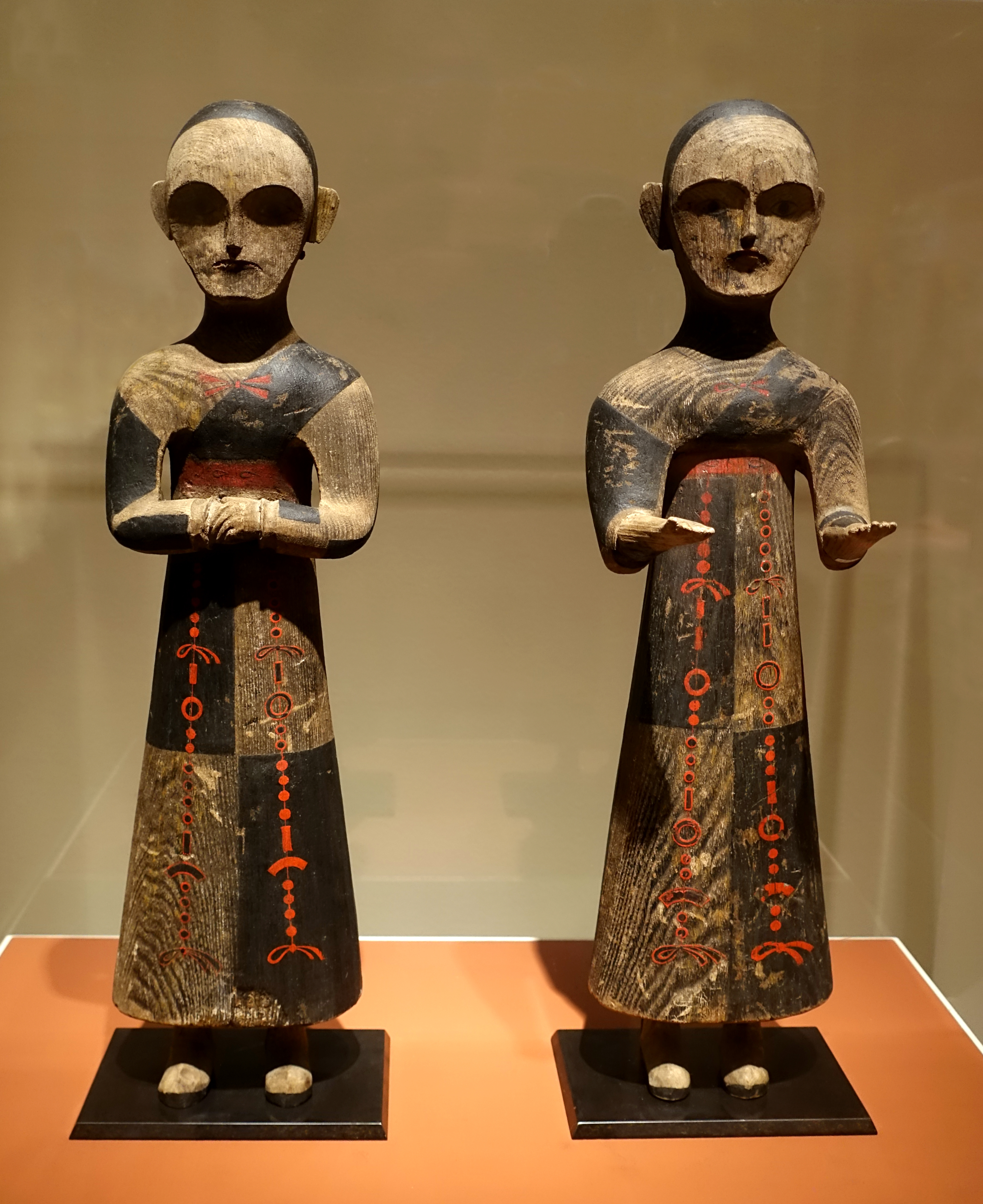 Exhibit in the Portland Art Museum - Portland, Oregon, USA.